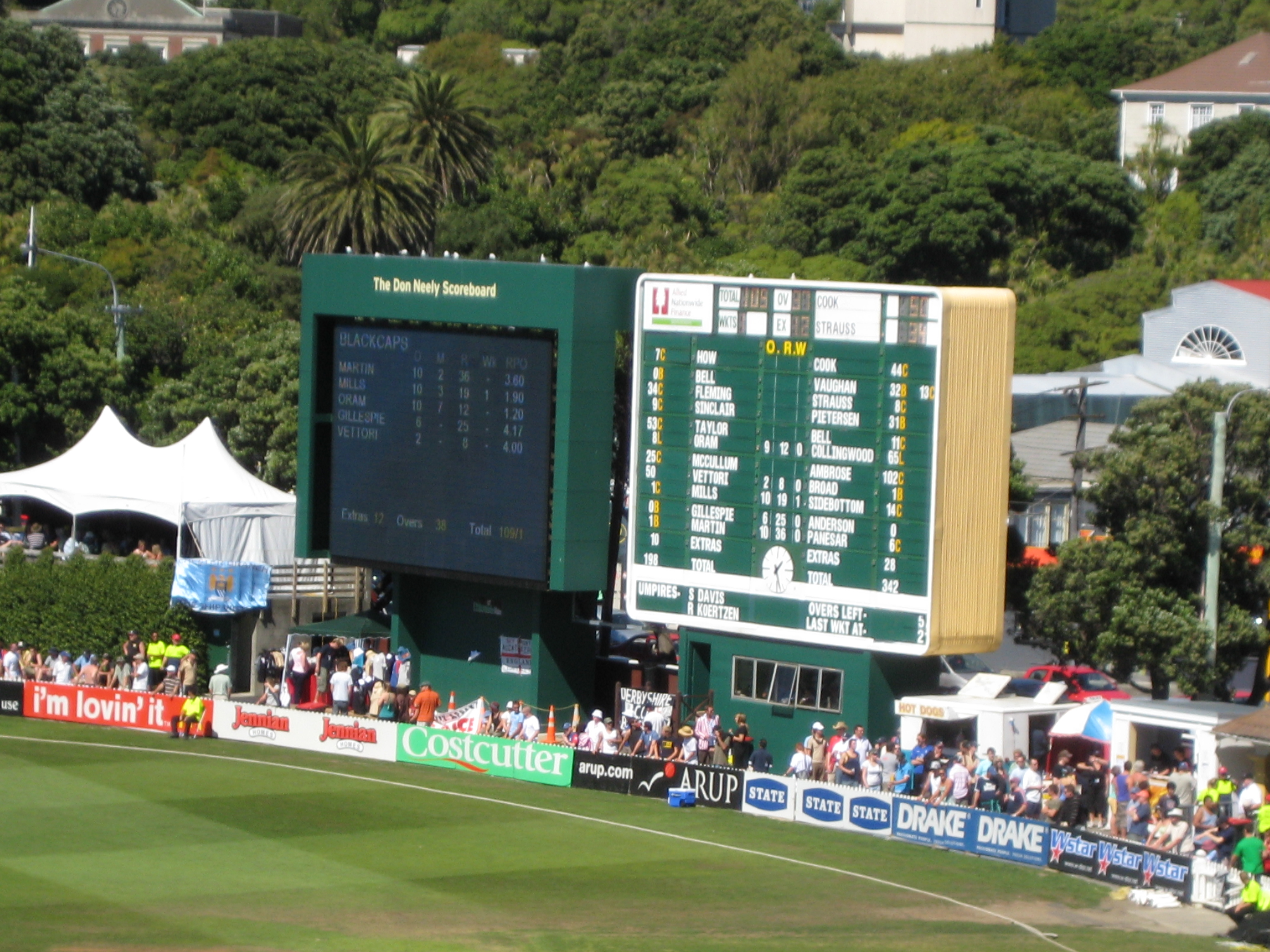 The Don Neely scorebaord at the Wellington Basin Reserve